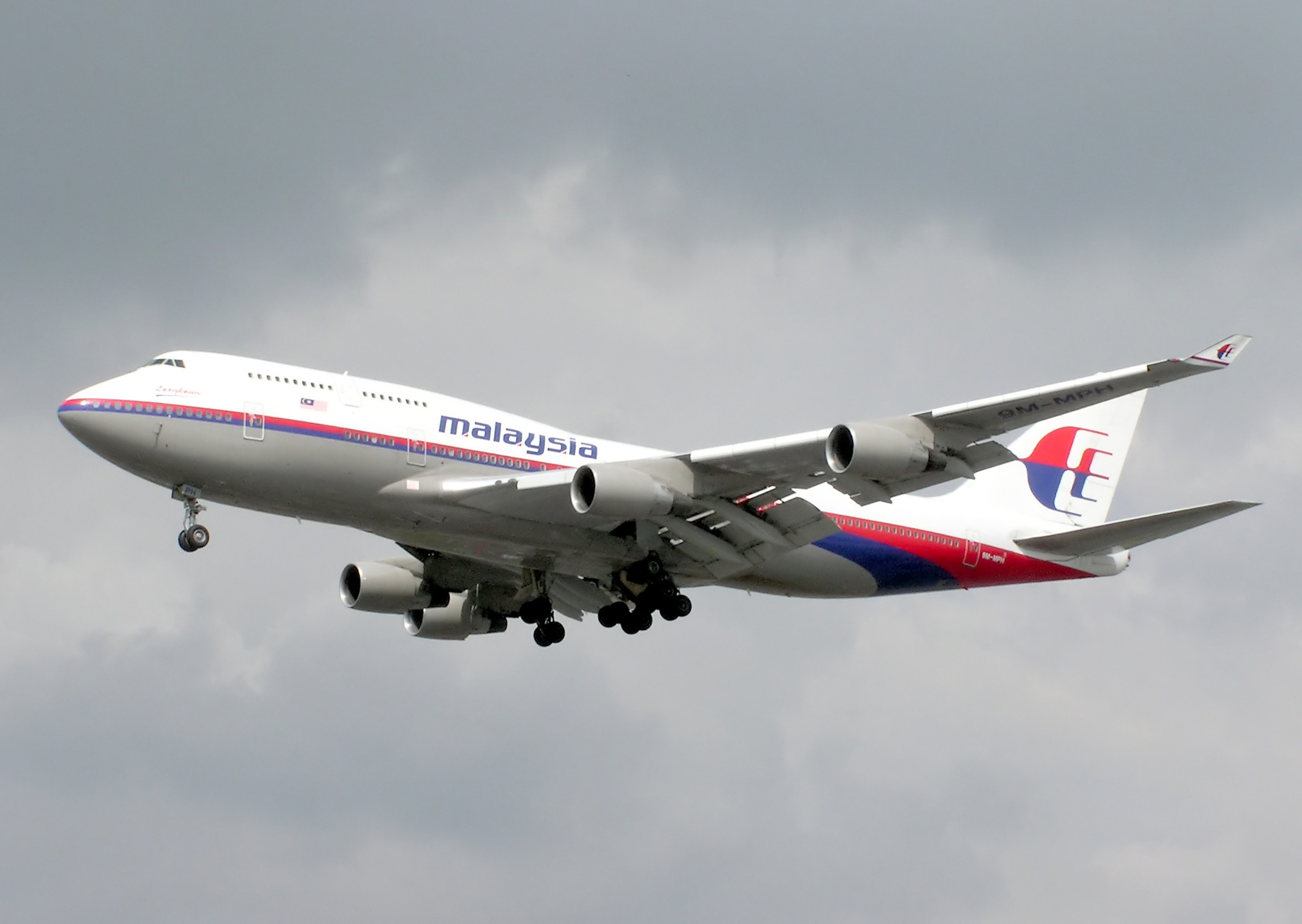 Malaysia Airlines Boeing 747-400 (9M-MPH)landing at London Heathrow Airport, England. Photographed by Adrian Pingstone in May 2006 and released to the public domain.